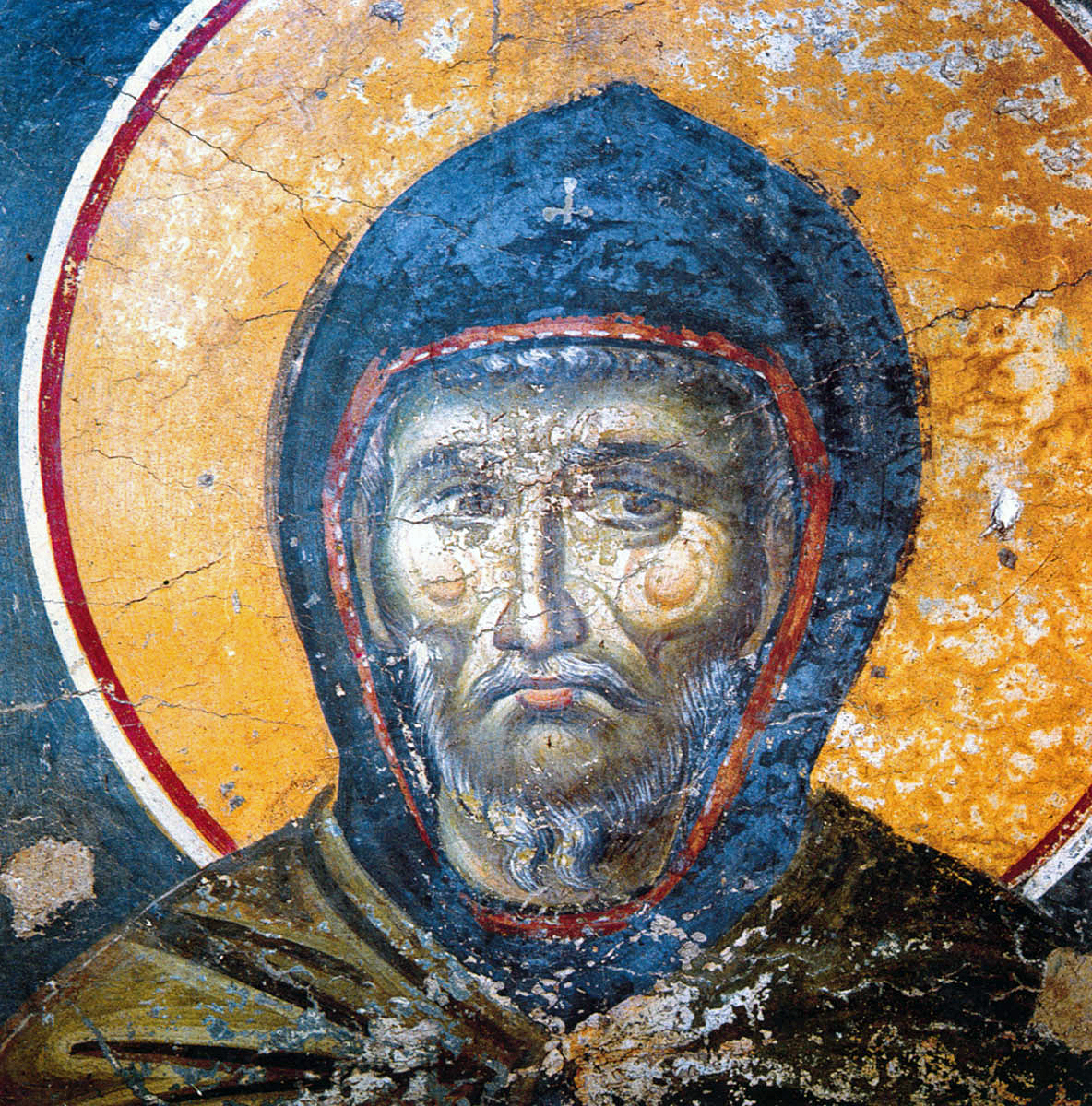 14th-century fresco of Ephrem the Syrian (detail), Church of the Assumption in Protation Monastery, Athos.